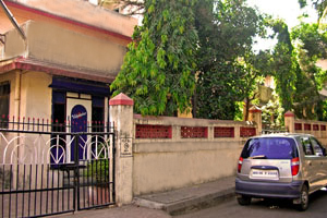 Vidyalankar Gurkul Hostel